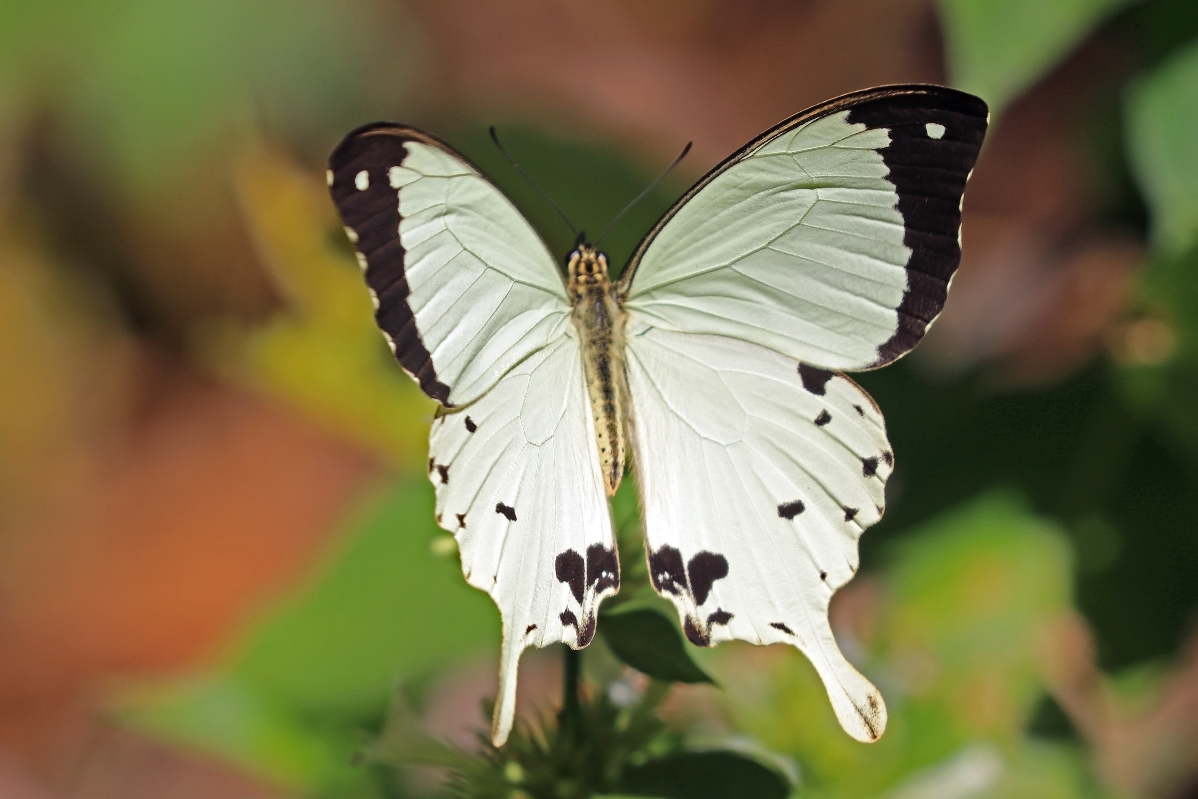 African swallowtail (Papilio dardanus antinorii) male, Harenna Forest, Ethiopia